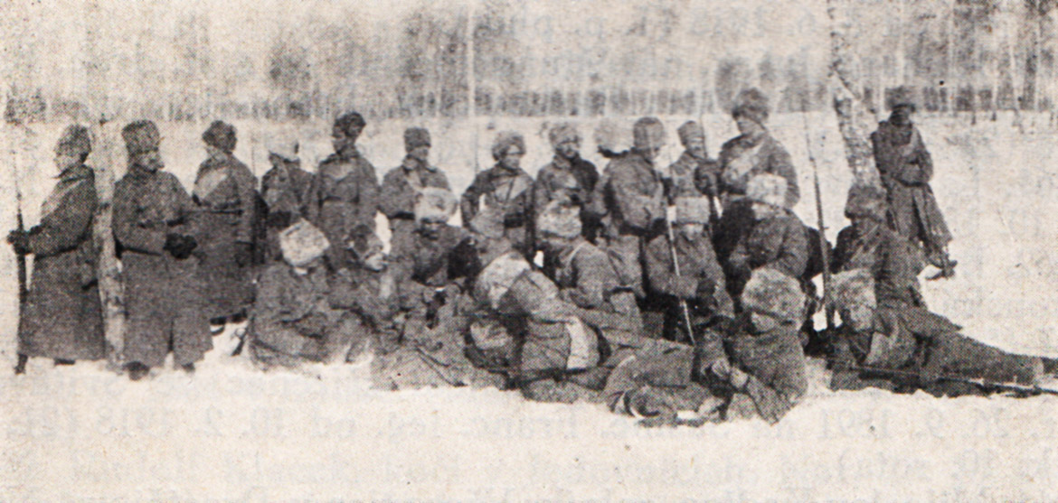 Siberia, free photo